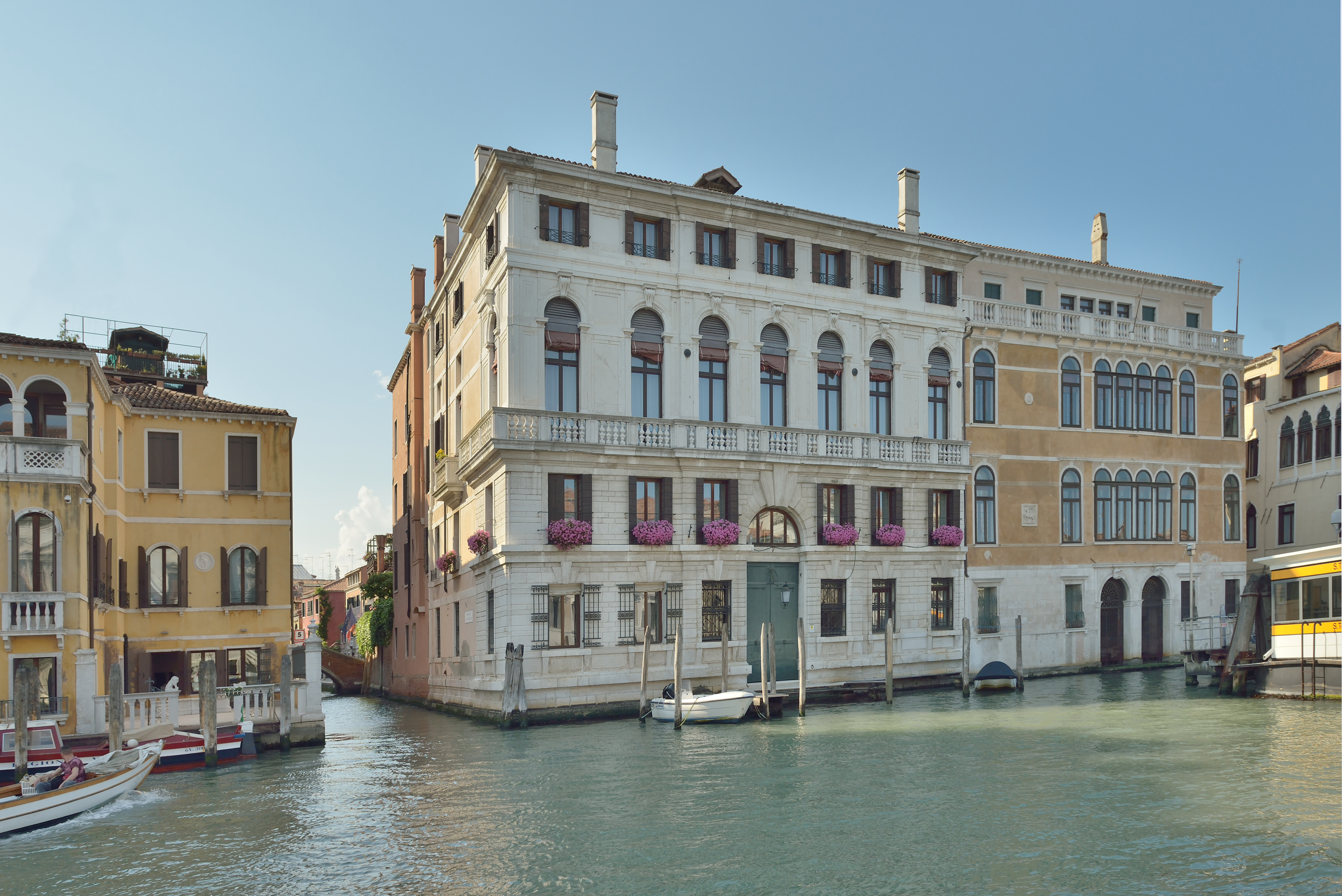 Palazzo Civran Grimani and Palazzo Dandolo Paolucci on the right on the Canal Grande in Venice.